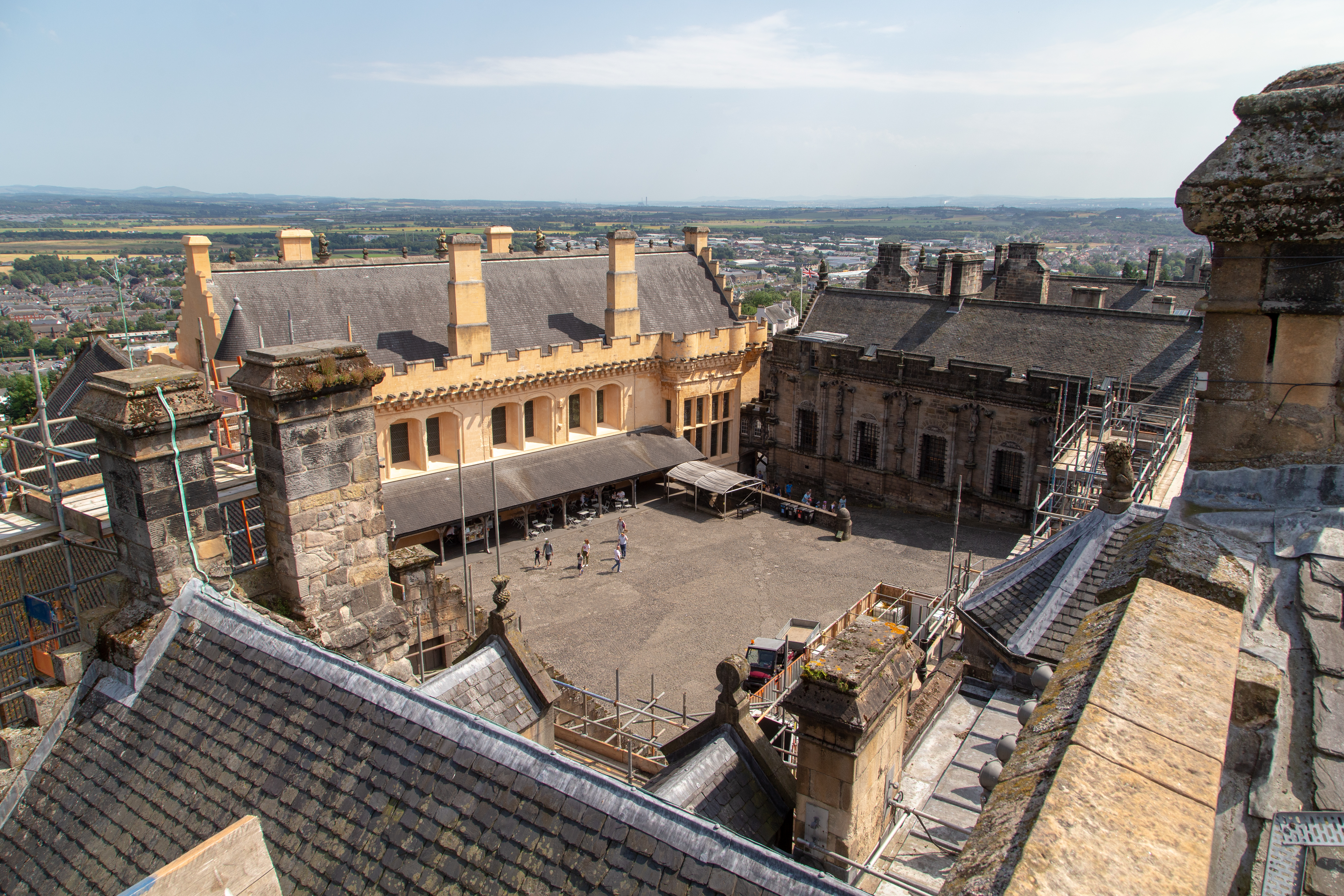 Stirling Castle